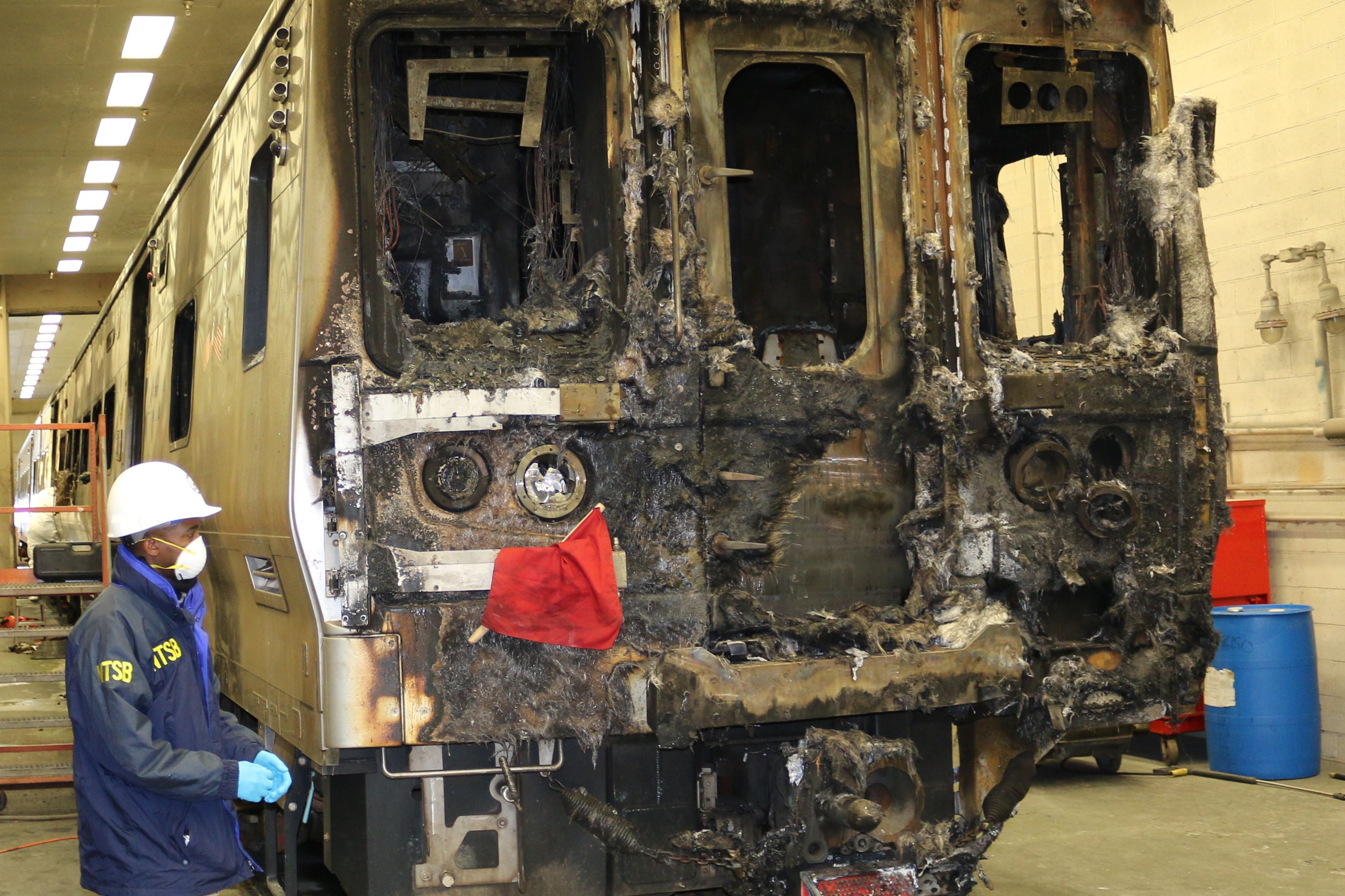 Train involved in Valhalla, NY, Metro-North accident at maintenance facility to be further examined.